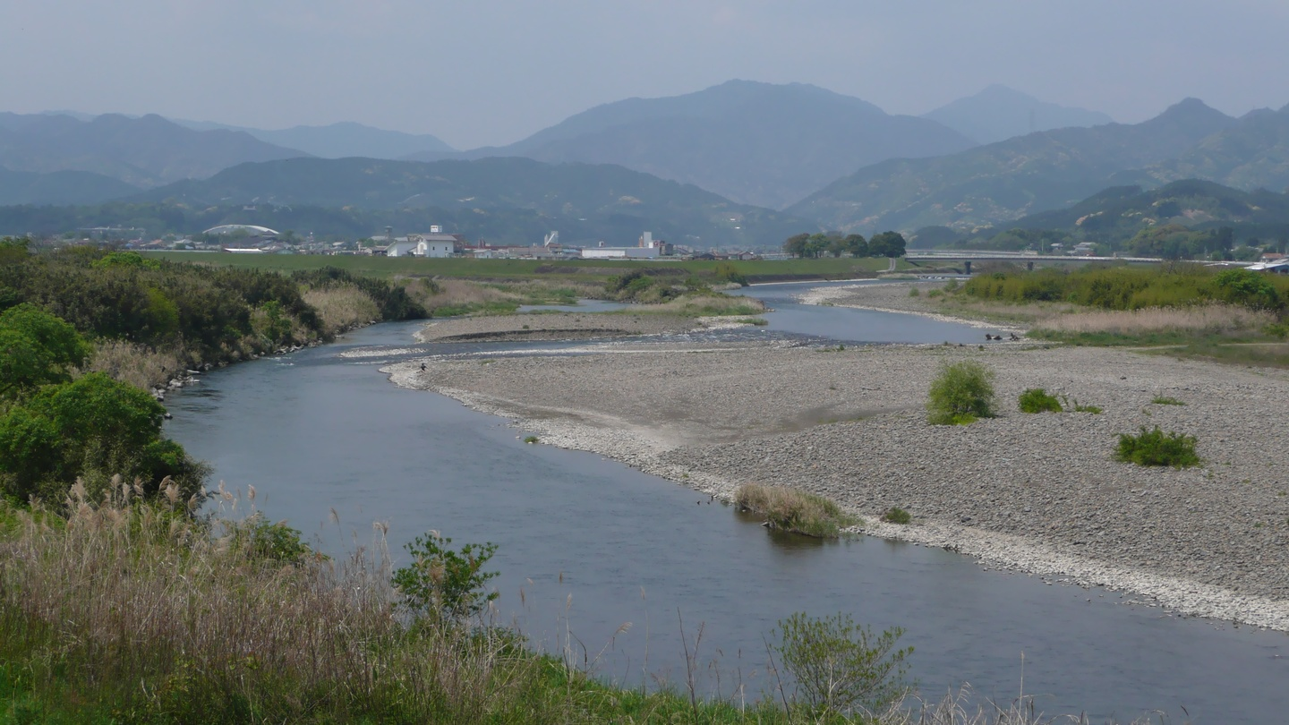 Honjo River (Kunitomi Town, Miyazaki, Japan)